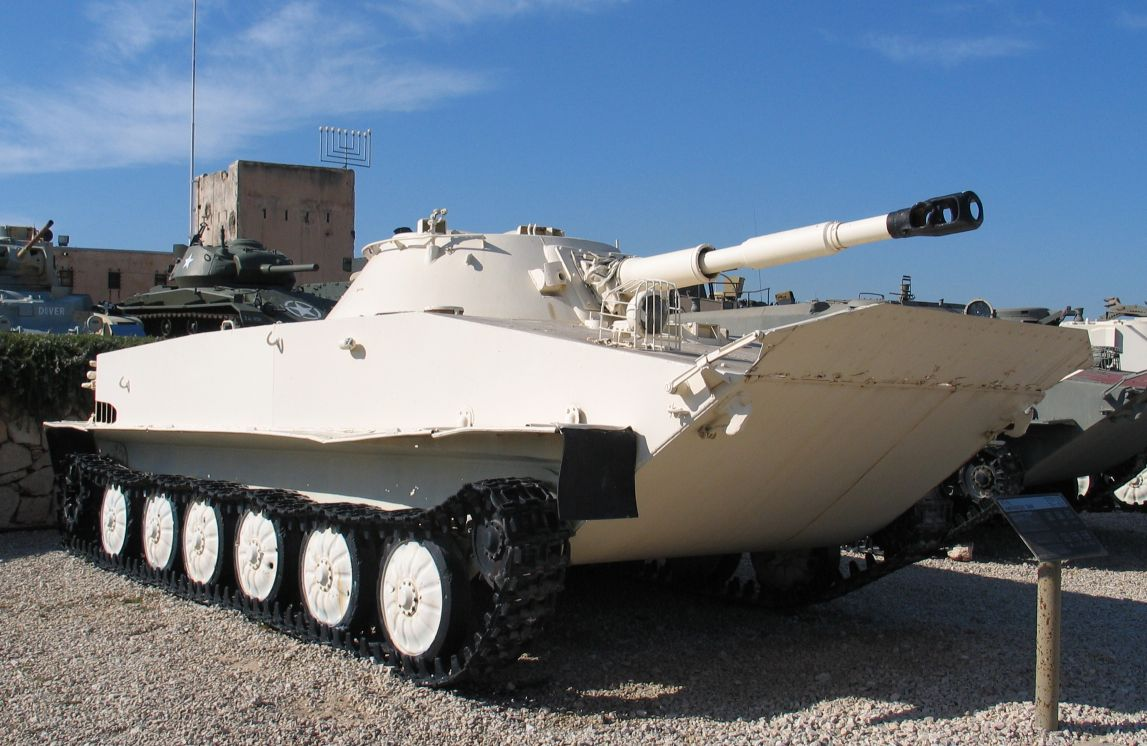 Description: Soviet PT-76 amphibious tank in Yad la-Shiryon Museum, Israel. Source: Photo by me, User:Bukvoed.